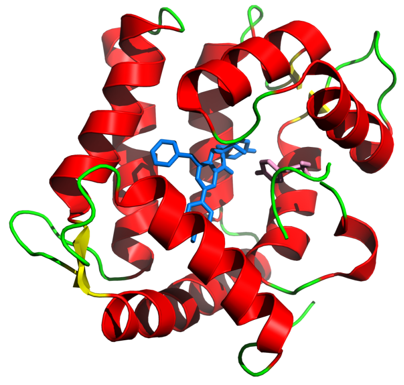 Aequorin ribbon diagram PDB 1eJ3. Presented is chain A. Hereby the substrate analoge is in blue, the tyrosine 184 in pink.